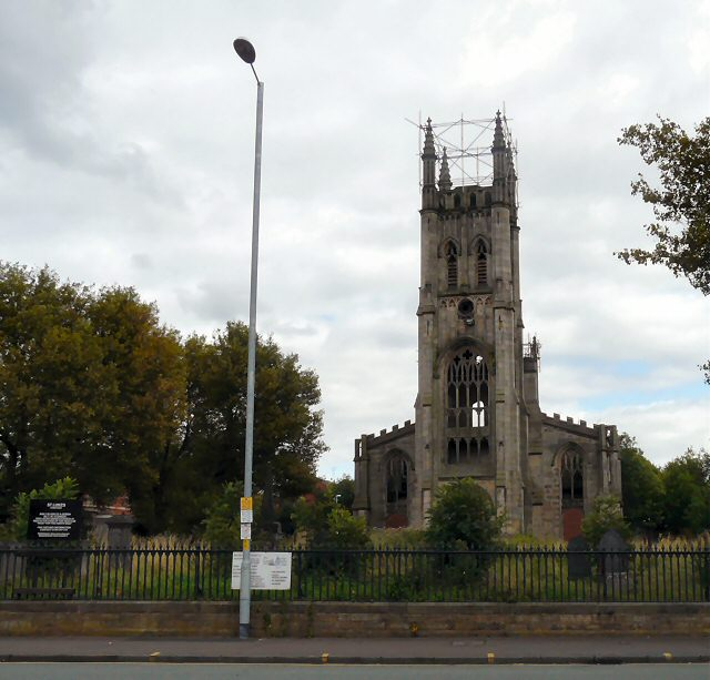 St Luke's Cheetham. St Lukes Church was built in 1836 and demolished in the 1980s with the graveyard and tower remaining. 1446871. Here are some pictures of how it looked originally